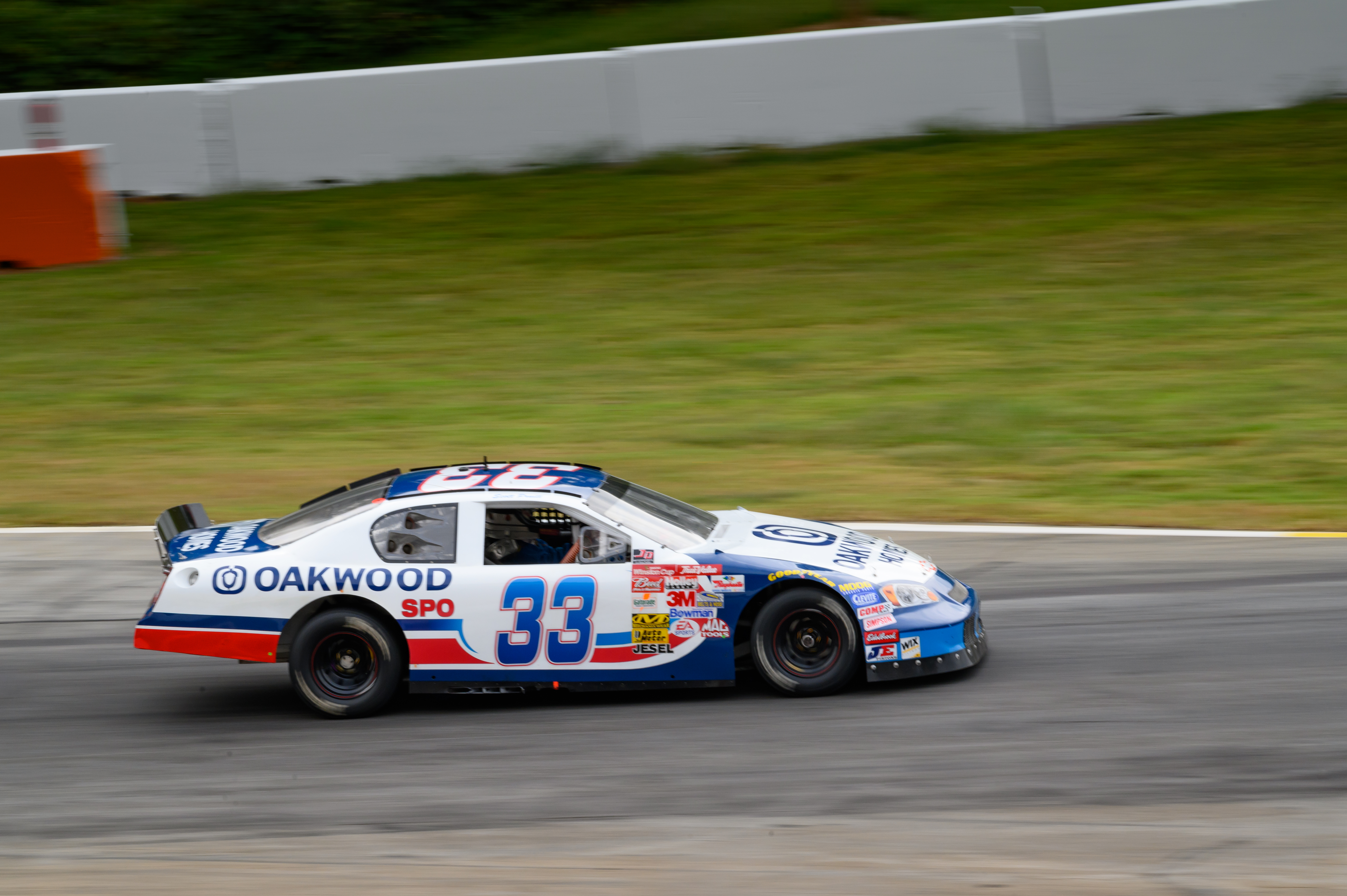 Scott Pruett